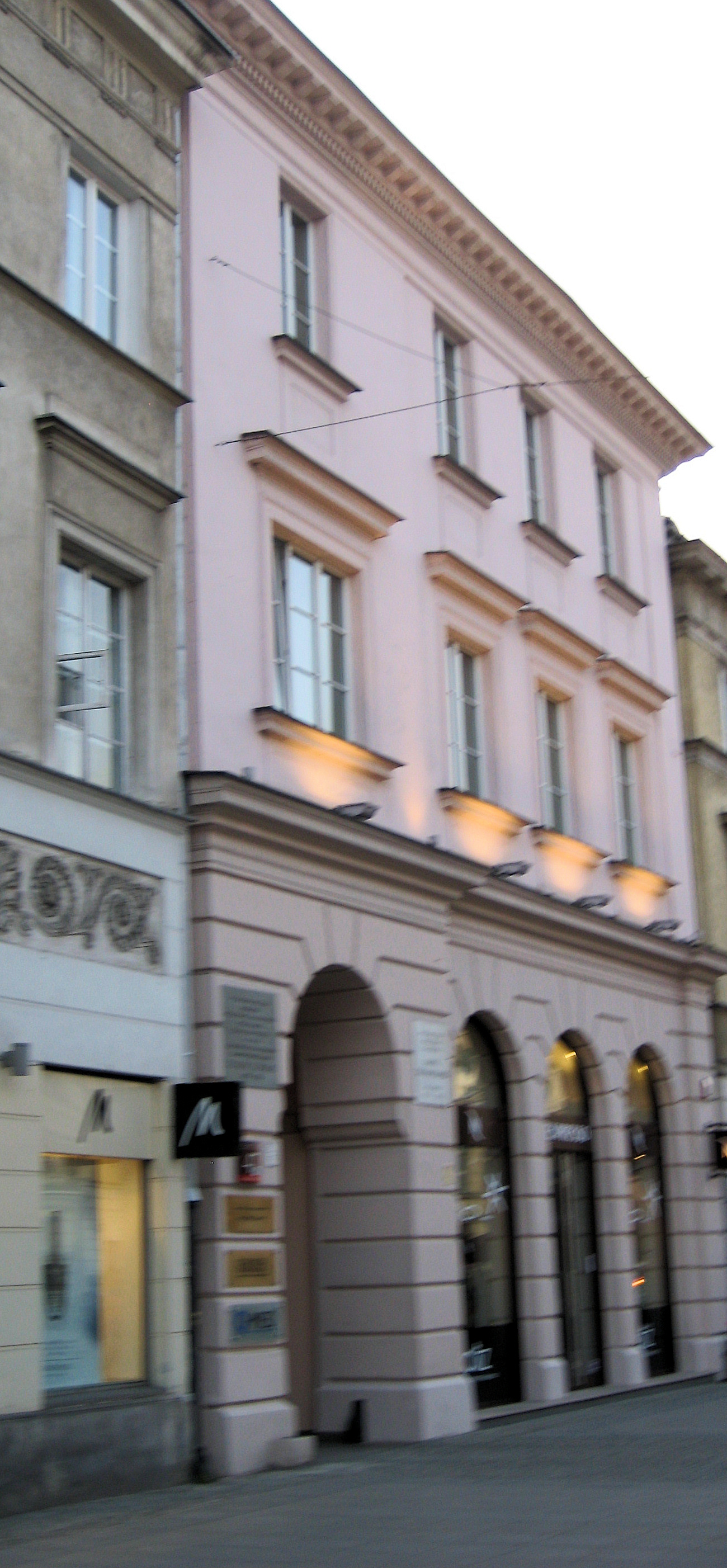 Nowy Swiat 47, Warsaw, Poland. Joseph Conrad lived here with his parents in 1861. Karol Szymanowski lived and composed here in 1924-29. Fryderyk Chopin's sister, Izabella, owned this house with her husband, Feliks Antoni Barcinski. It was in this home in 1844 that Chopin's father, Mikołaj Chopin, died. The Barcinski's sold the home in 1850.